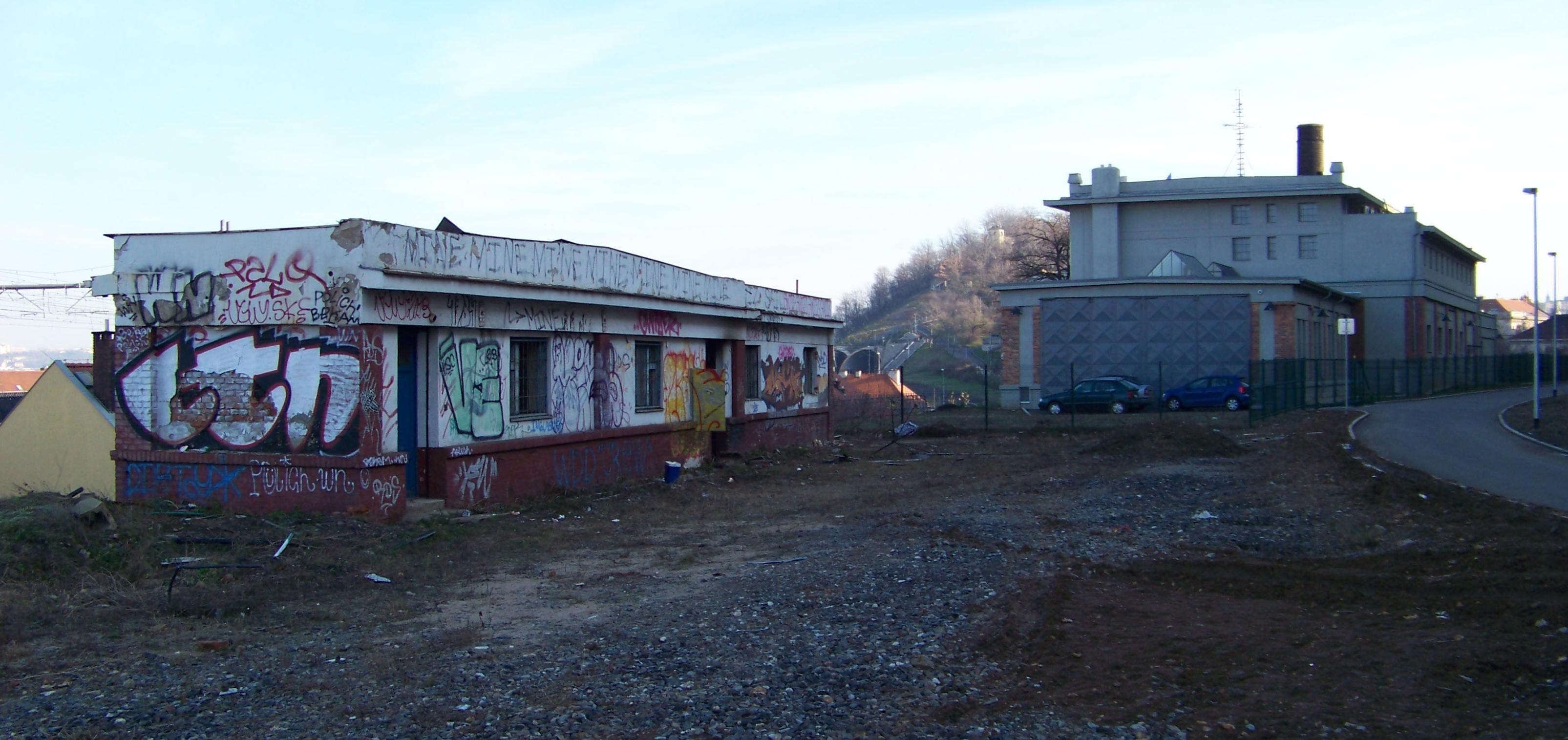 Prague-Žižkov. Old railway buldings near "Praha hlavní nádraží" station.